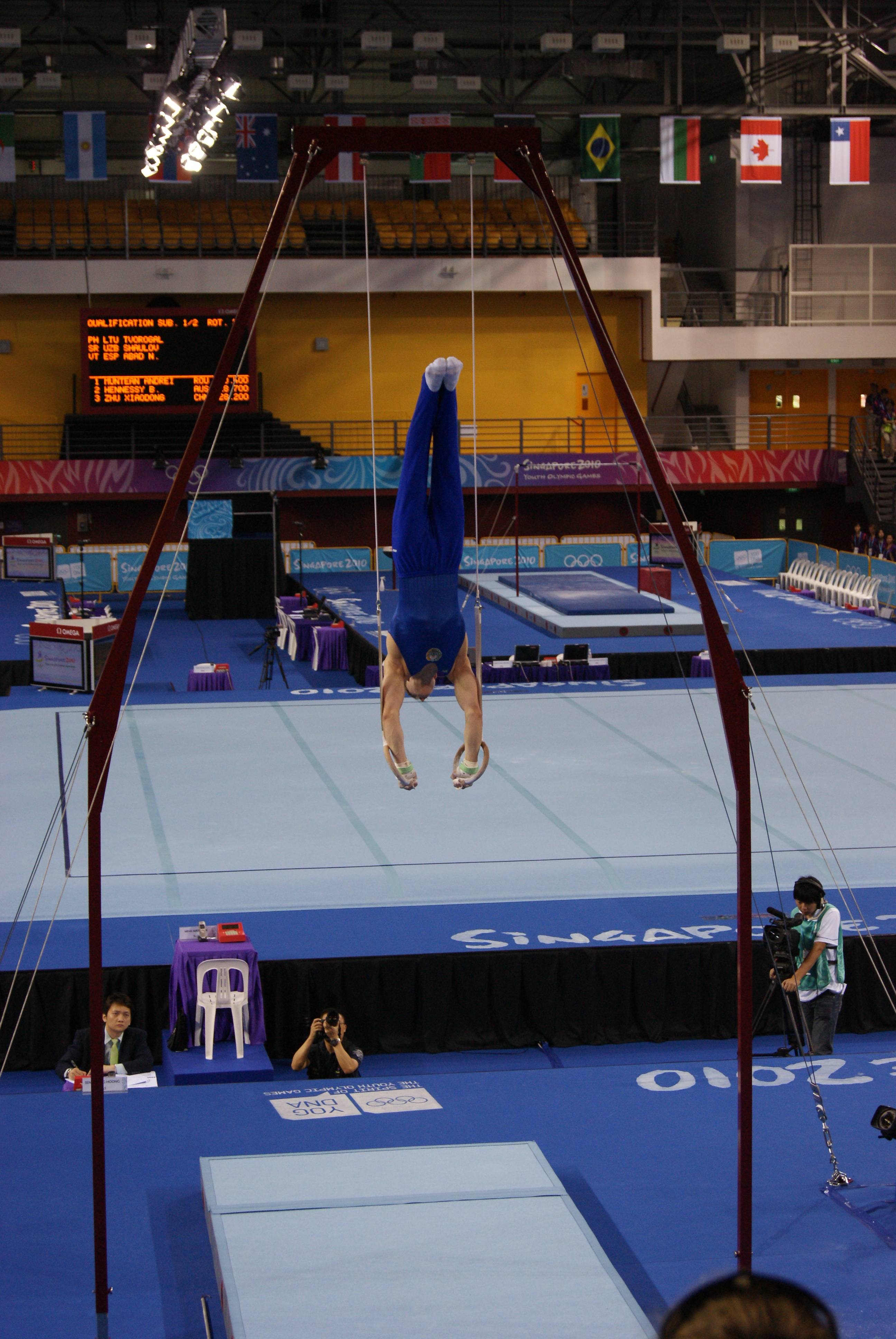 Uzbek gymnast Eduard Shaulov performing on the rings during Men's Qualification – Subdivision 1 of the artistic gymnastics competition at the 2010 Summer Youth Olympics at Bishan Sports Hall, Singapore.